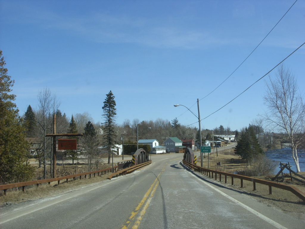 New York State Route 458 heading northeast-bound across the Saint Regis River and into the town of Saint Regis Falls.